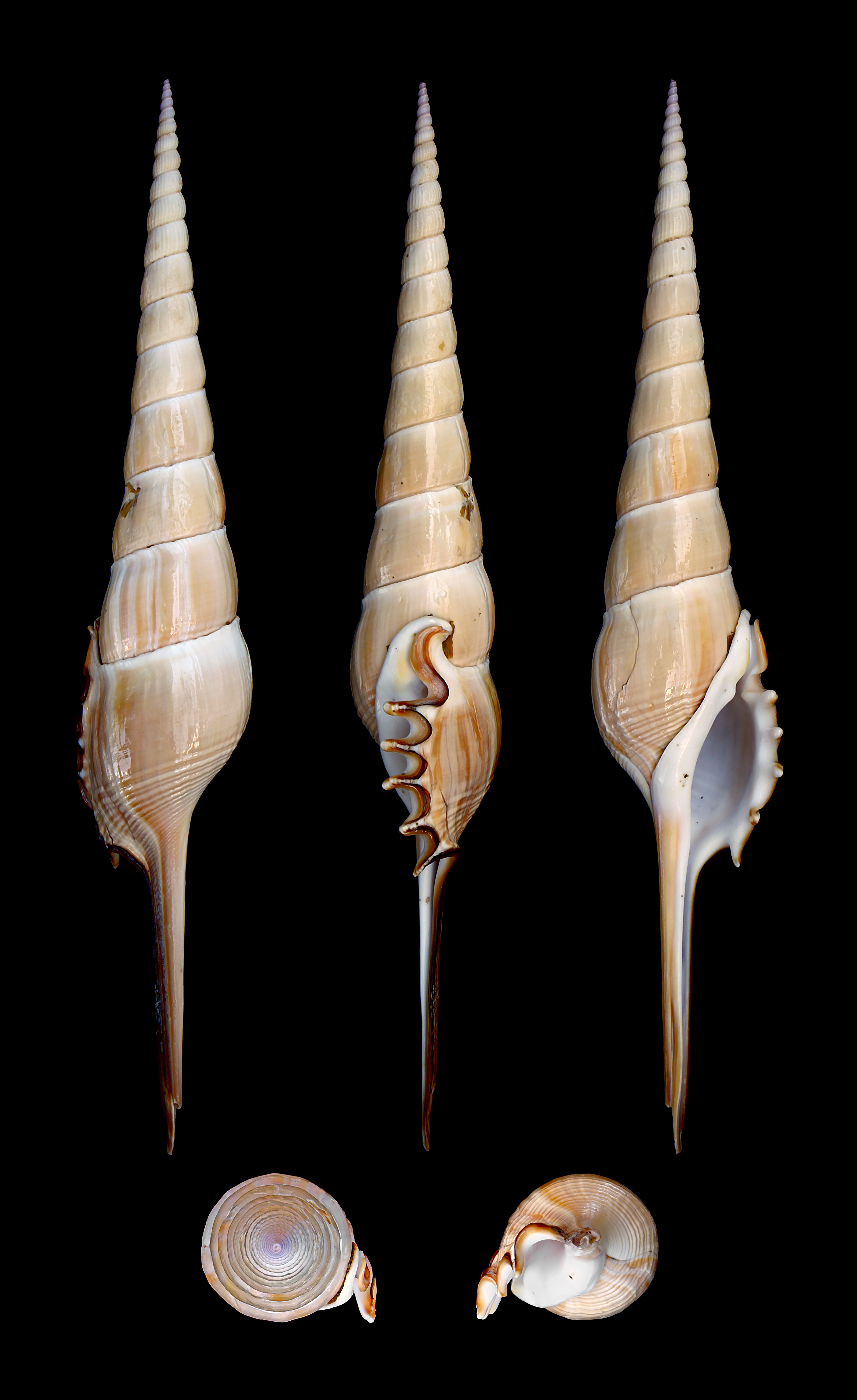 Shin-bone Tibia; Length 20 cm; Originating from Nha Trang, Vietnam; Shell of own collection, therefore not geocoded. Dorsal, lateral (right side), ventral, back, and front view.